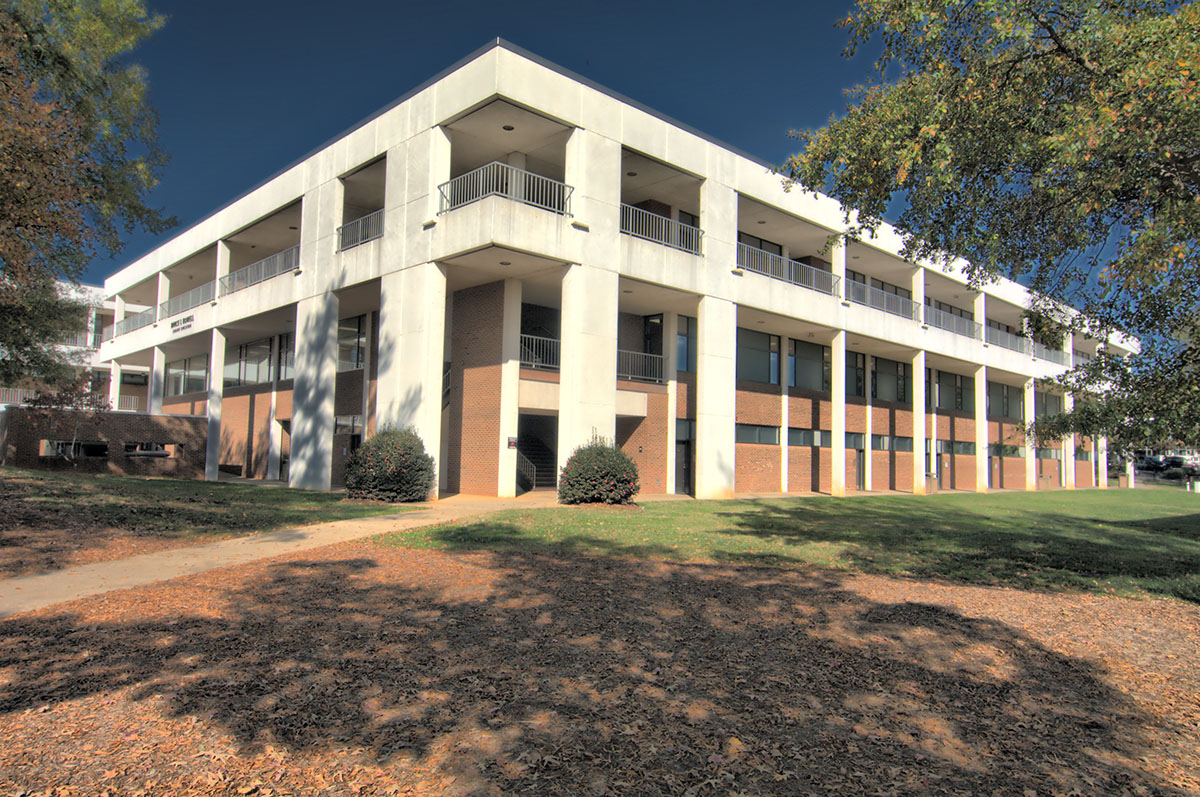 Library Education Building (South), Wake Technical Community College Main Campus